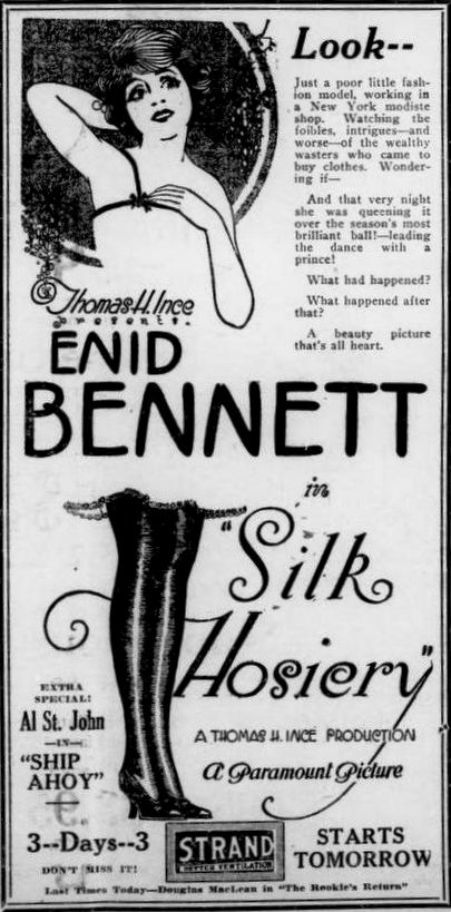 Newspaper advertisement for the American film Silk Hosiery (1920) with Enid Bennett, on page 4 of the April 6, 1921 Duluth Herald.